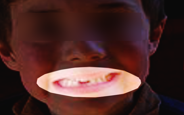 This is a version of the tooth loss picture, where the teeth are more easily in view, and his eyes are blurred, instead of blacked out.